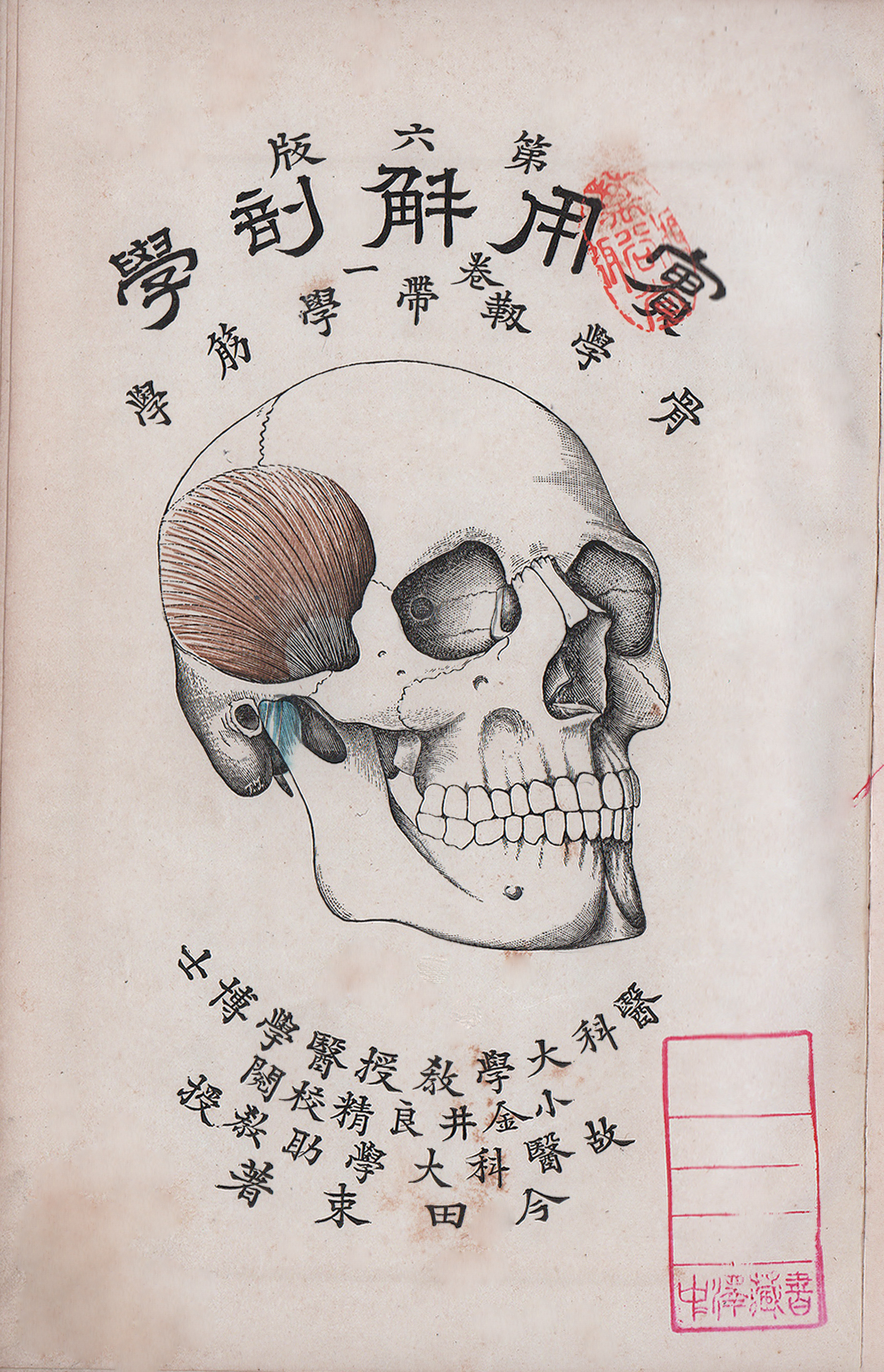 Imada Tsukanu: Jitsuyō kaibōgaku. Tokyo,1894 (6th edition)